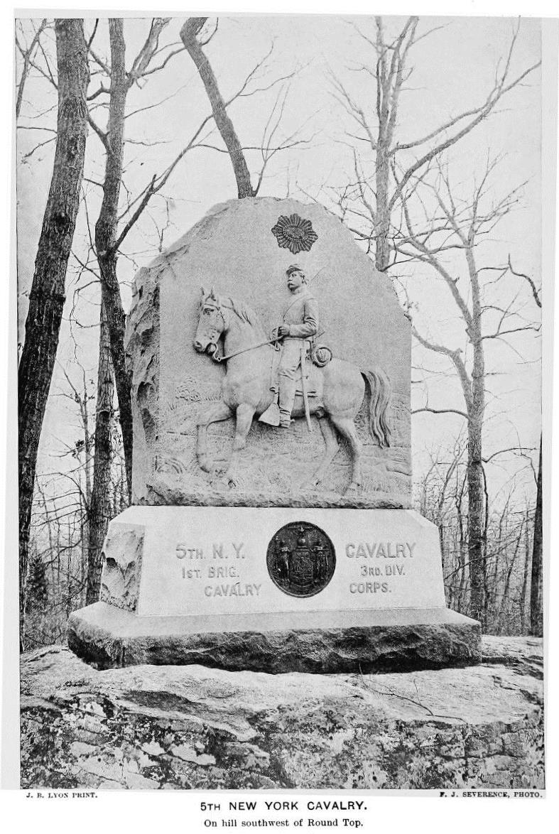 5th New York Cavalry Monument, Gettysburg Battlefield. New York Monuments Commission, Final Report on the Battlefield of Gettysburg, Volume 3 (Albany, NY: J. B. Lyons Company, 1902), opp. p. 1123.[1]